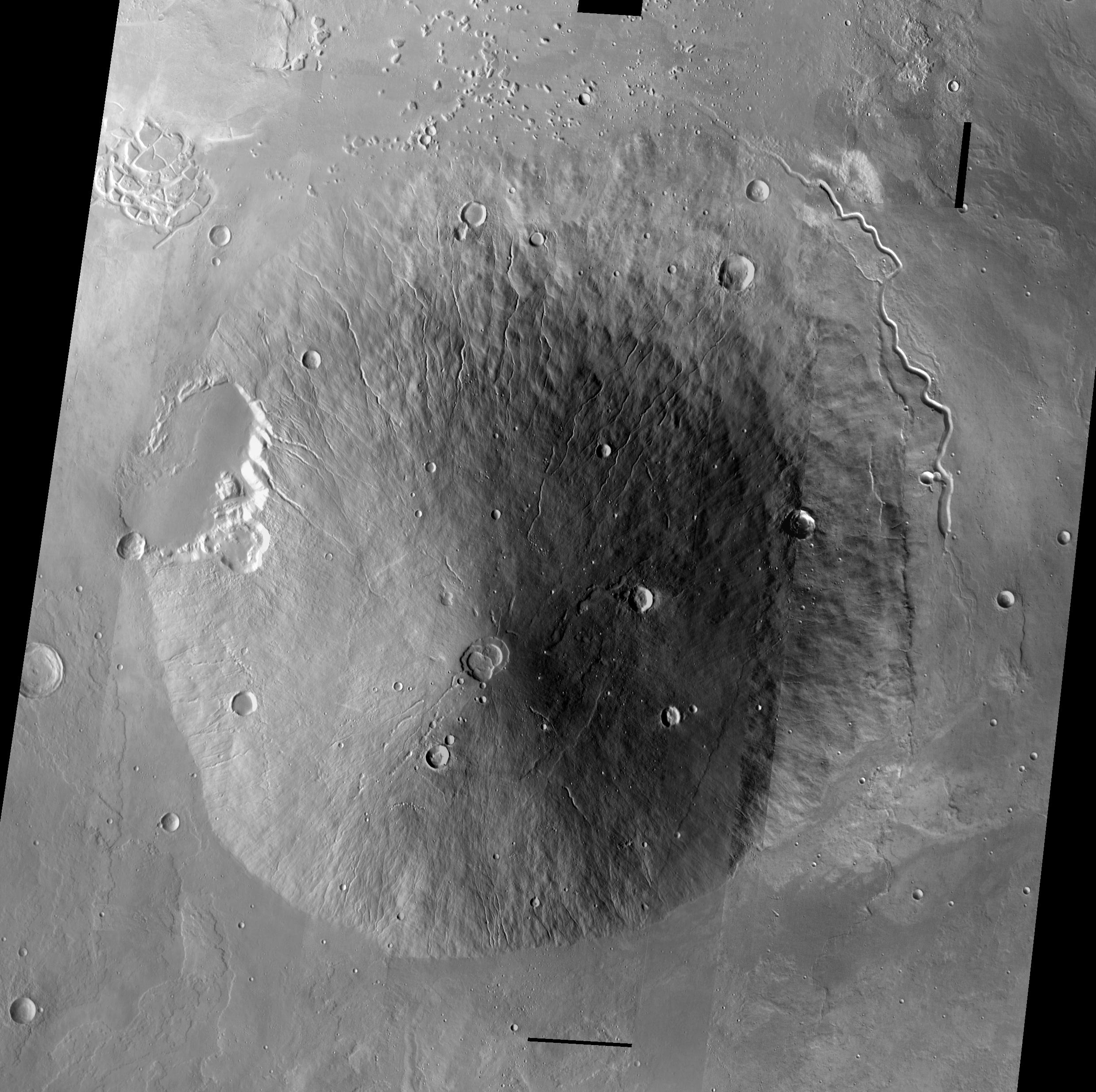 Hecates Tholus is a volcano located north of Elysium Mons. This image is a mosaic of daytime IR images from 2001 Mars Odyssey. Image information: IR instrument. Latitude 29.1, Longitude 149 East (211 West). 100 meter/pixel resolution. Note: this THEMIS visual image has not been radiometrically nor geometrically calibrated for this preliminary release. An empirical correction has been performed to remove instrumental effects. A linear shift has been applied in the cross-track and down-track direction to approximate spacecraft and planetary motion. Fully calibrated and geometrically projected images will be released through the Planetary Data System in accordance with Project policies at a later time.